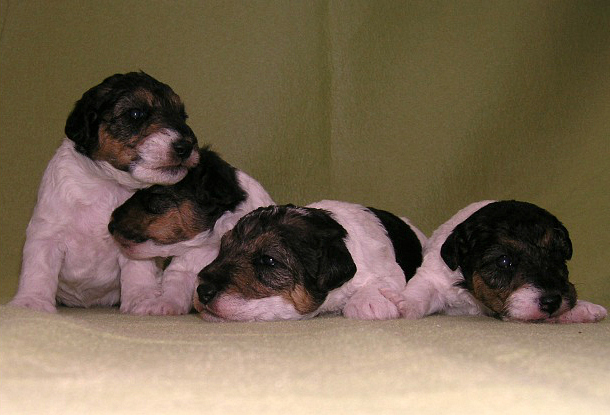 puppies - 3 weeks